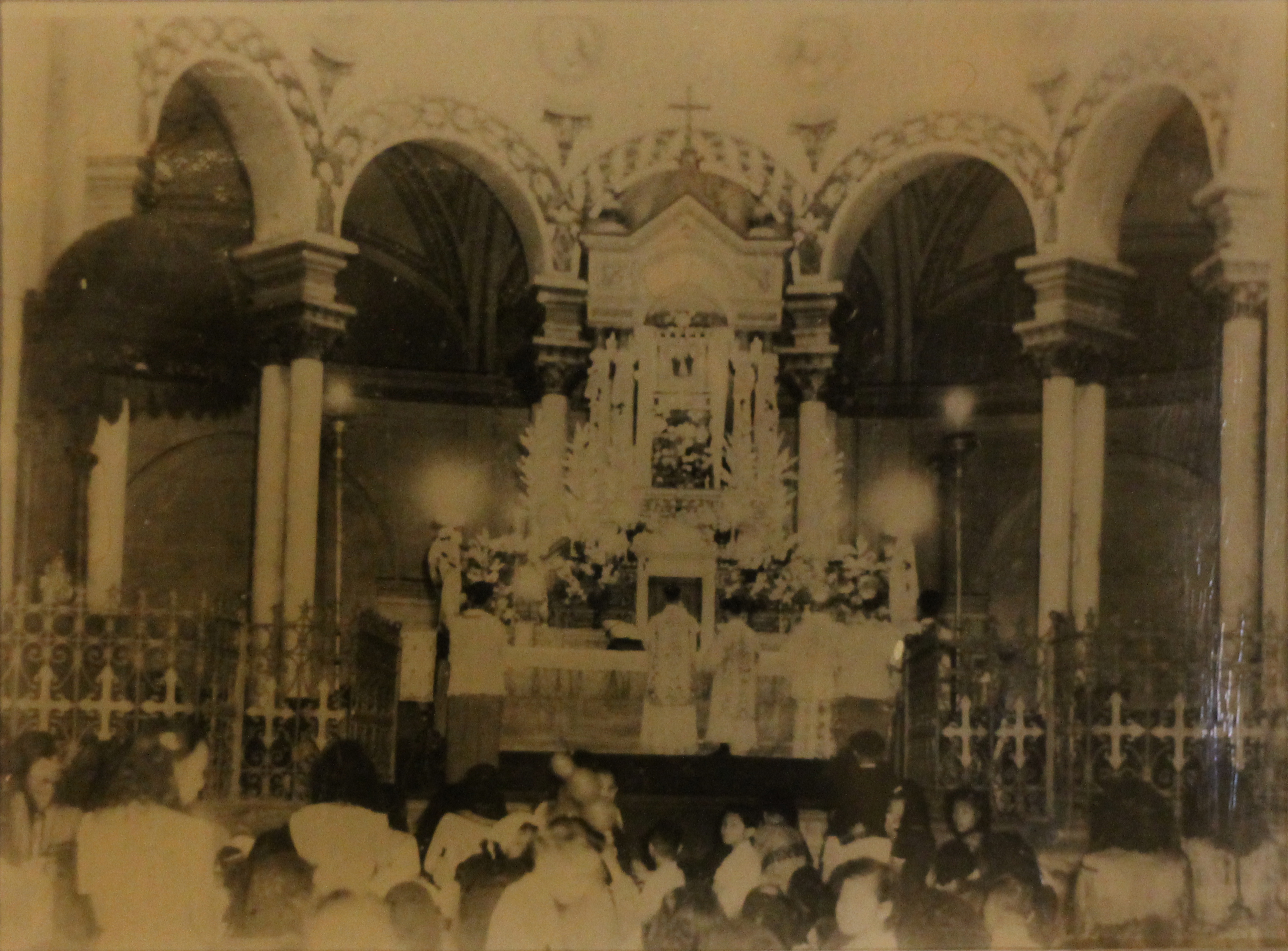 from the collection of Fr. Virgilio Saenz Mendoza